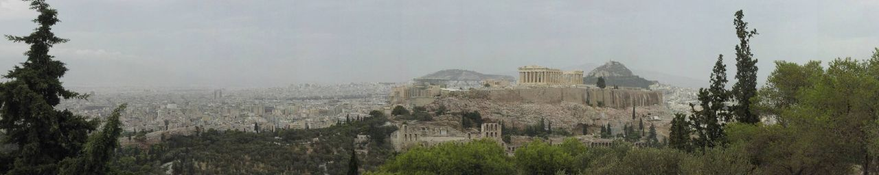 Athens and Acropolis.